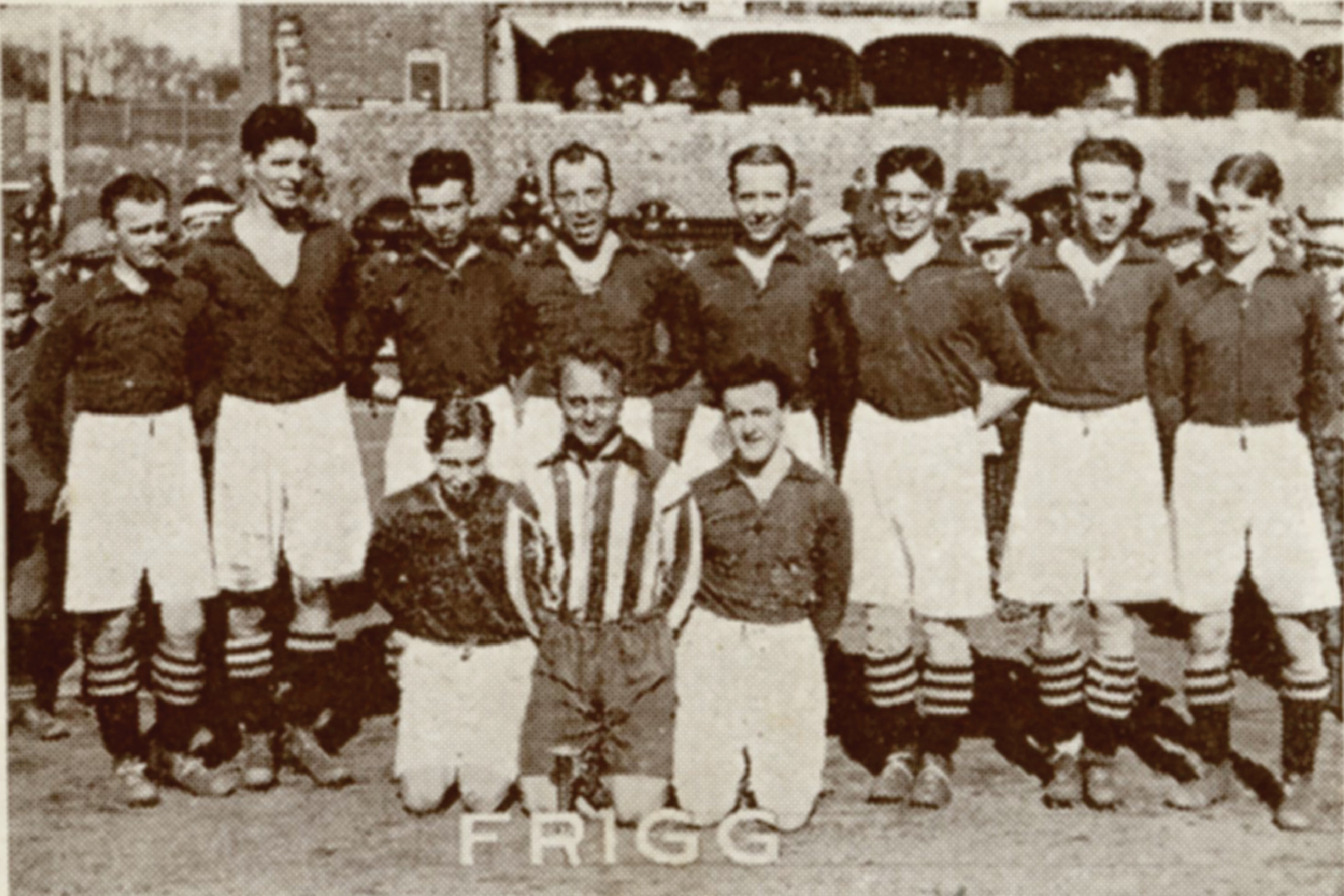 Frigg Oslo FC team that won the "Christmas Cup", from a cigarette card issued in Norway.